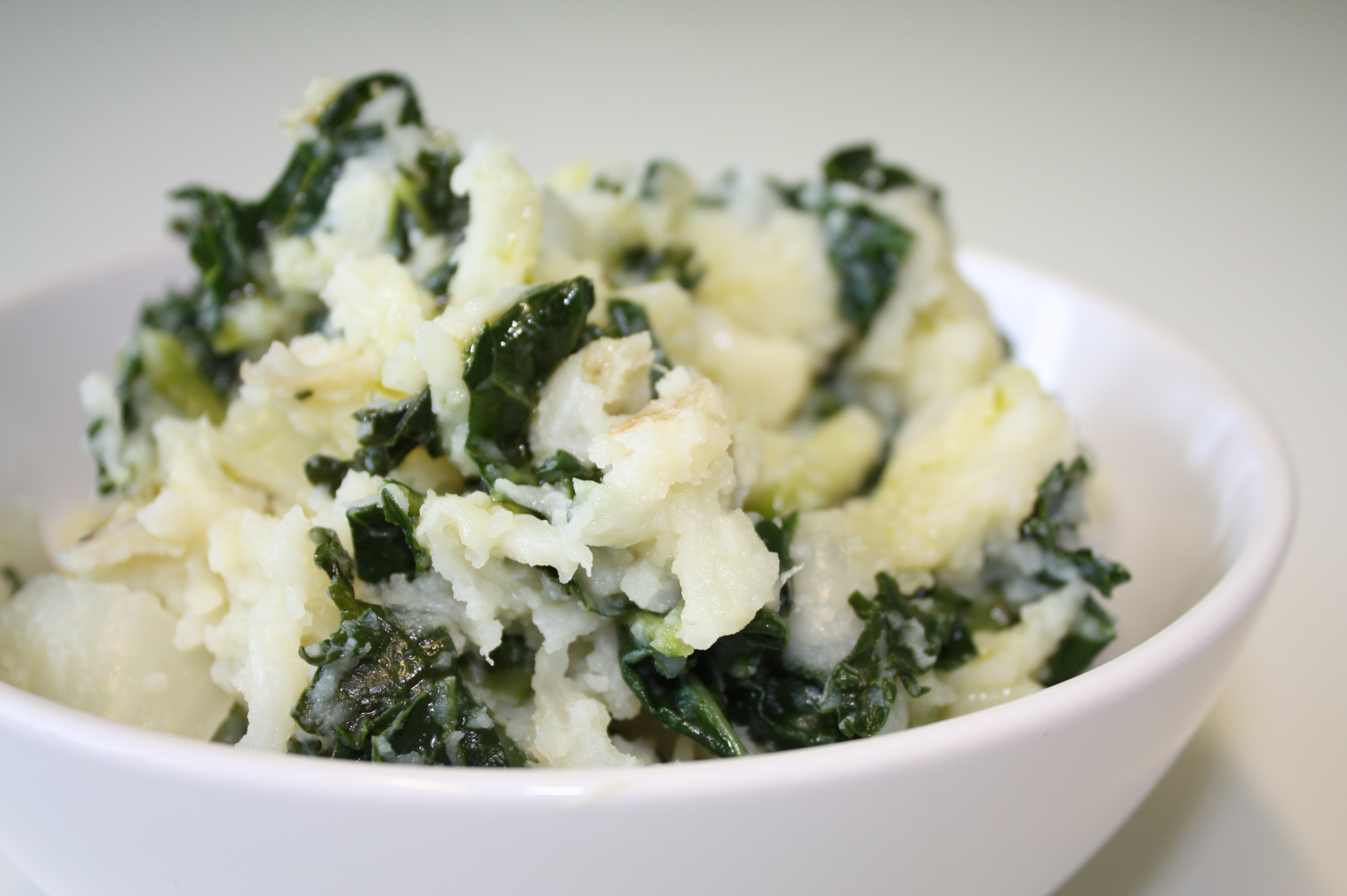 Just in time for St.Patrick's day, try this recipe for the traditional irish dish, Colcannon.